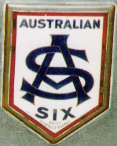 Radiator badge of an Australian Six automobile (number A357)